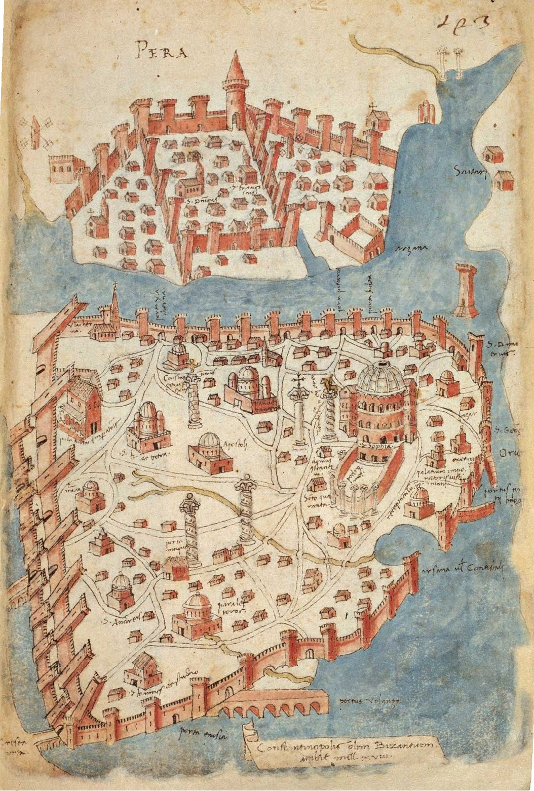 Mediaeval map of Constantinople